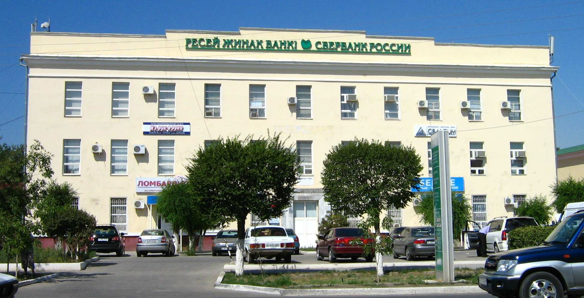 Russian Sberbank's branch office in Atyrau, Kazakhstan